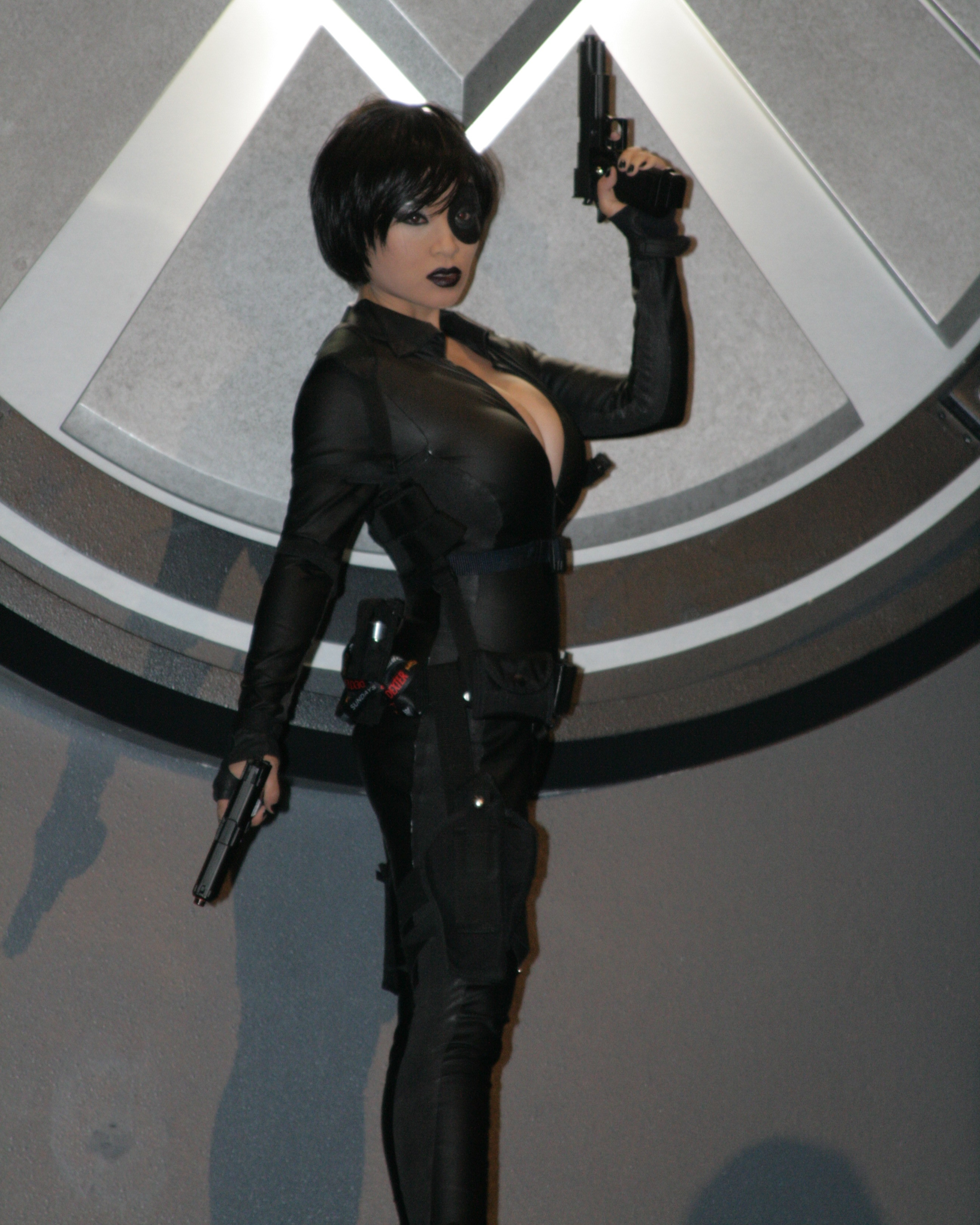 Cosplay at New York Comic Con 2011: Yaya Han as Domino.